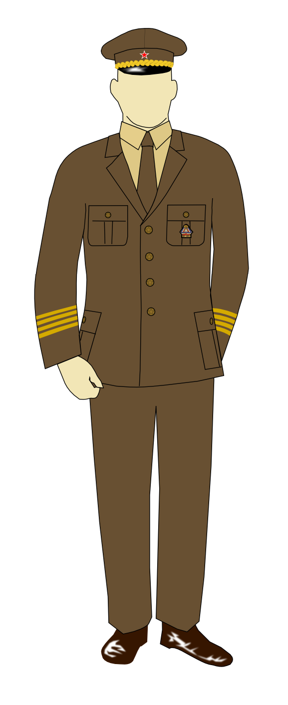 Yugoslavian Customs Officer in 1976- Man uniform. Based on legal prescriptions in official journals: Uradni list SFRJ št. 12 (11. 03.1971). »Pravilnik o službeni obleki carinskih delavcev«. Str. 229-230. Uradni list SFRJ br. 14 (9. travnja 1976). »Pravilnik o izmjeni i dopuni pravilnika o službenom odijelu radnika carinske službe.« Str. 363-364.